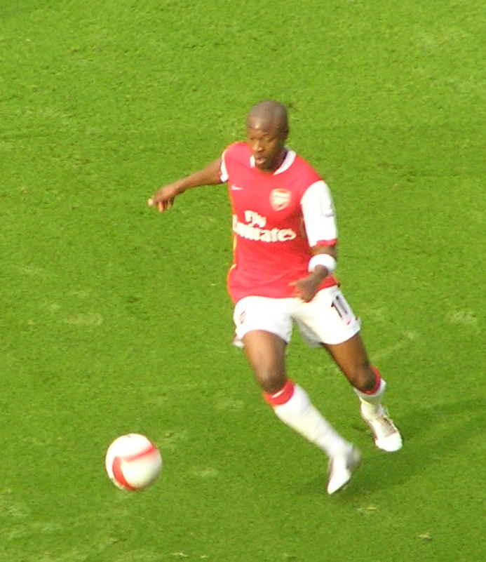 William Gallas playing against Watford on the 14th of October 2006. AArsenal won the game 3-0 with goals from Stewart (o.g), Henry and Adebayor. Taken from the Upper tier at the South end of Arsenal's Emirates Stadium